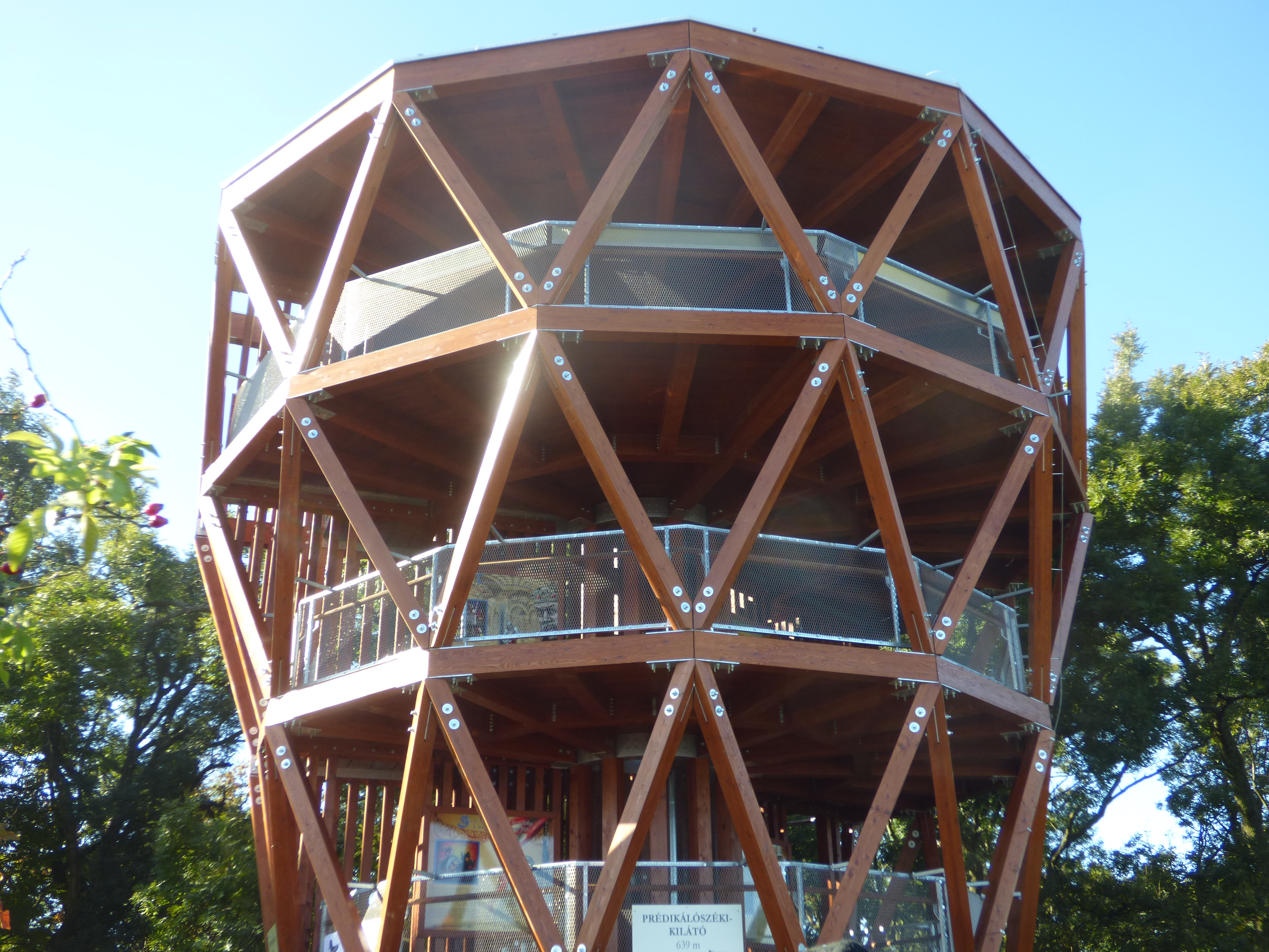 A Prédikálószéki-kilátó felső szintjei észak felől